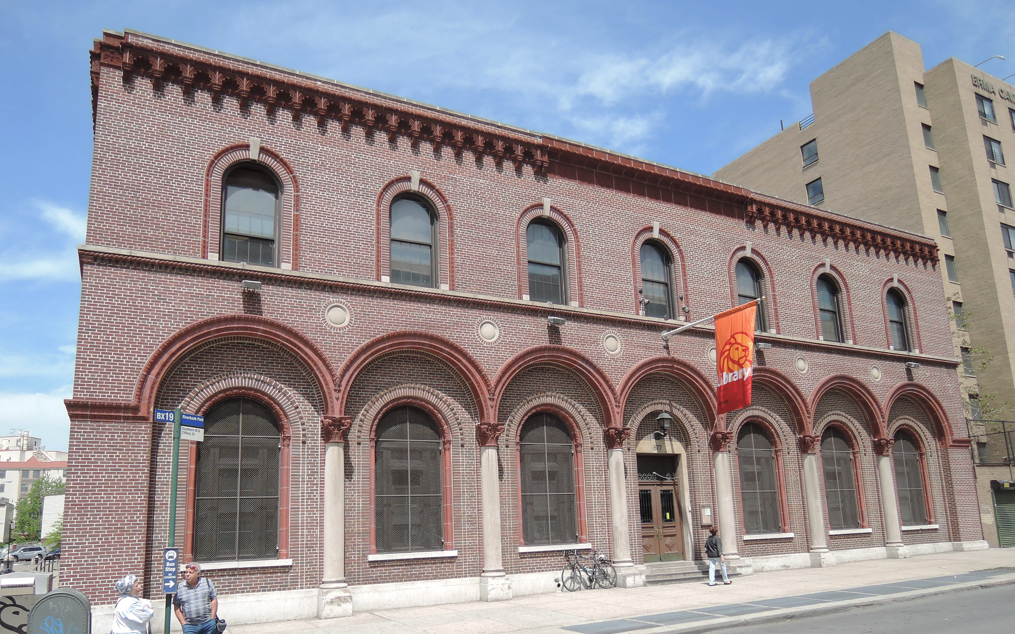 Looking north at library on a sunny midday.